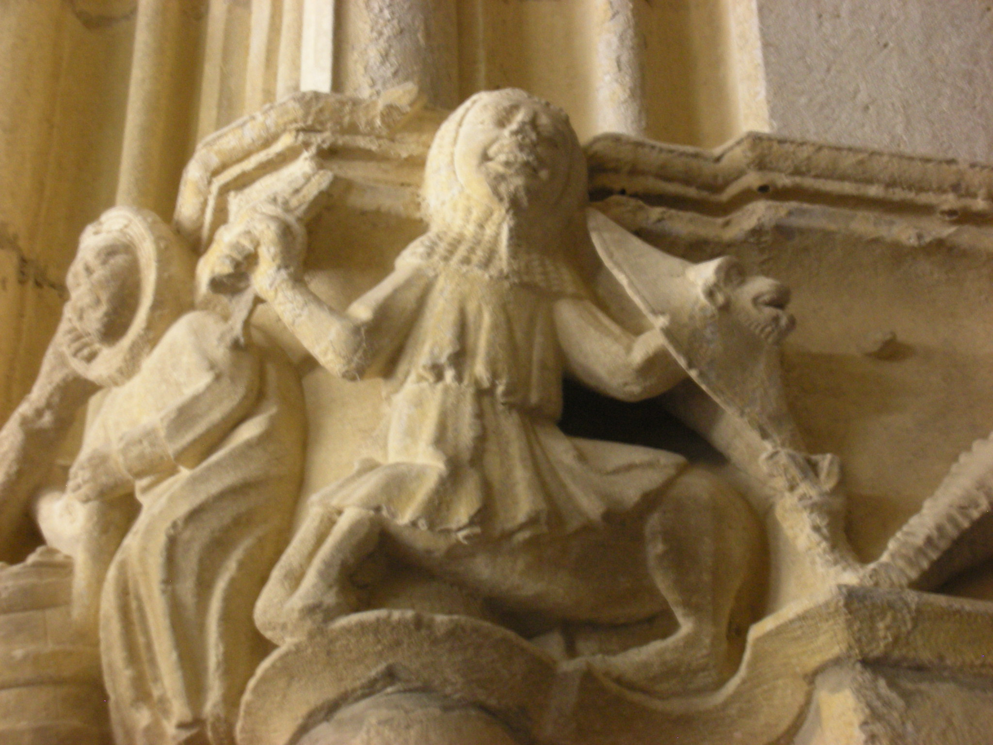 Centaur from St Mary´s Church in Ujue (Navarre-Spain)